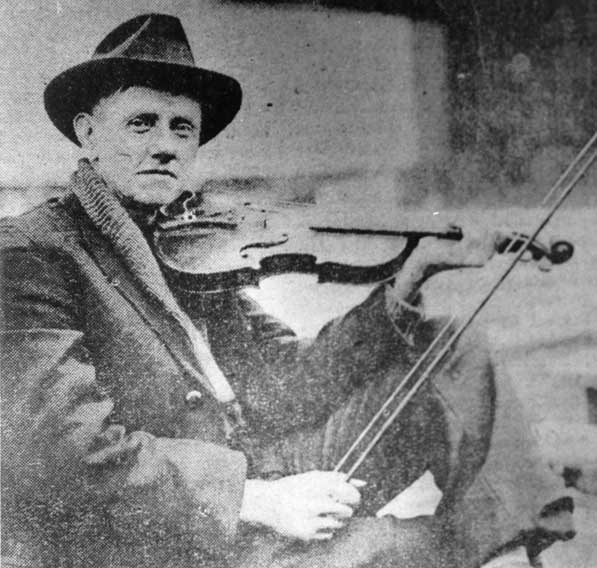 A photography of old-time musician Fiddlin' John Carson